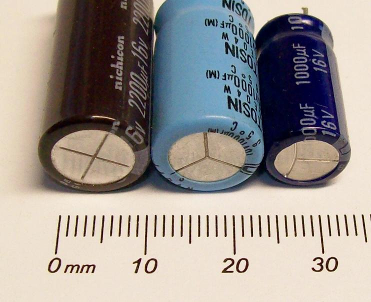 predetermined breaking lines on electrolytic capacitors / Sollbruchstellen an Al-Elkos